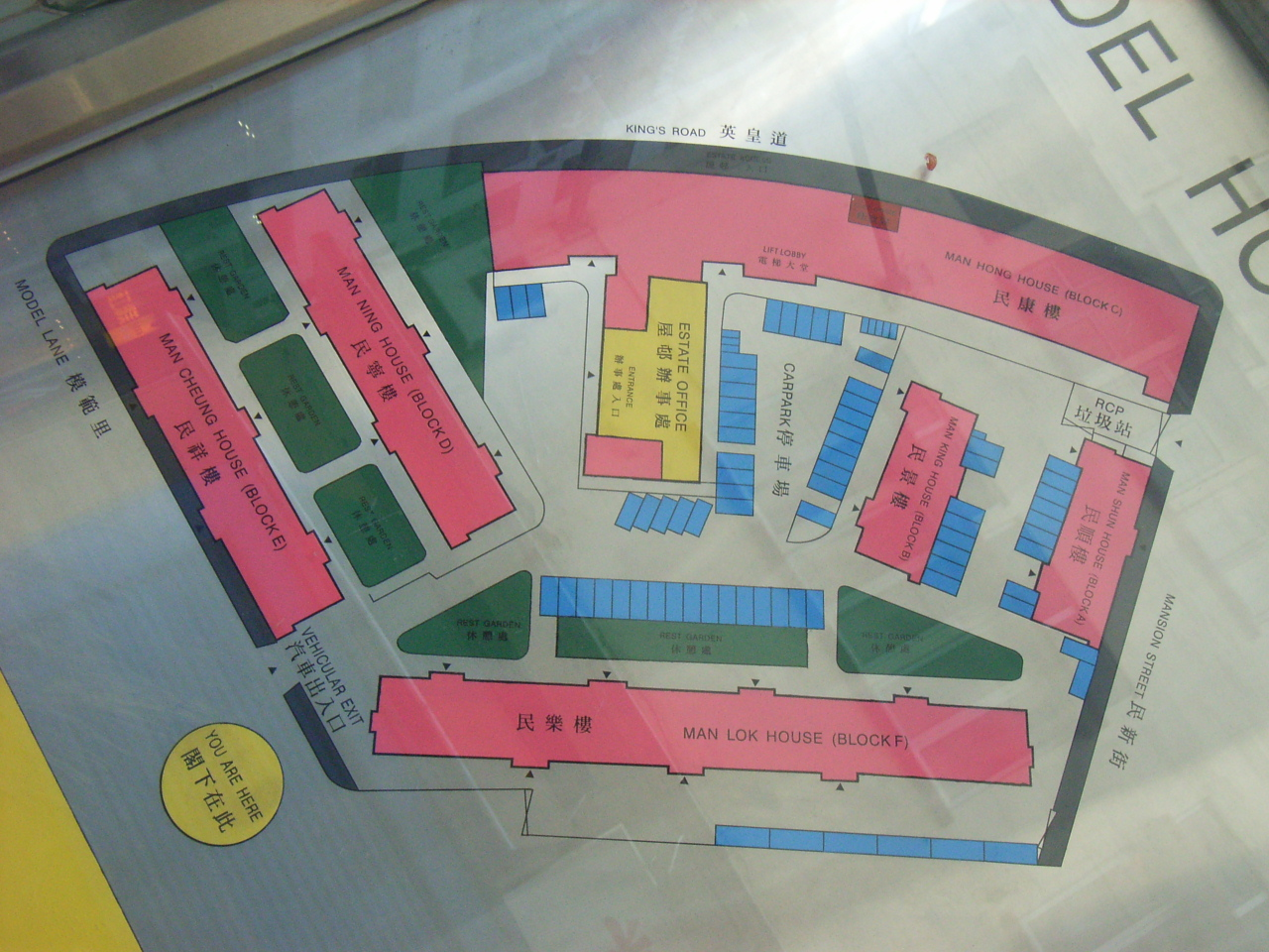 Model Housing Estate, King's Road, North Point, Hong Kong. Photographer is User:Huang Kong Hing